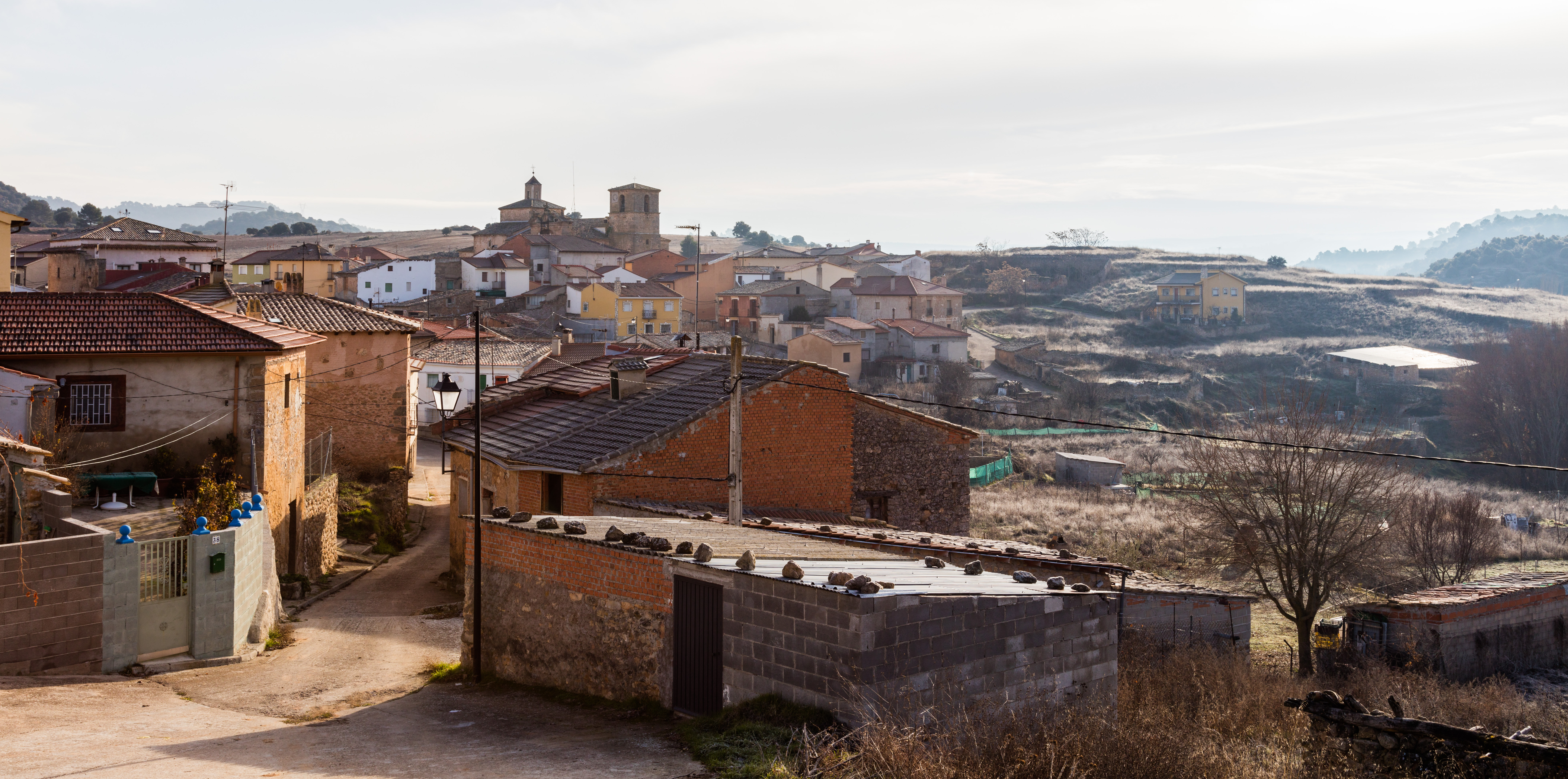 Gualda, Guadalajara, Spain